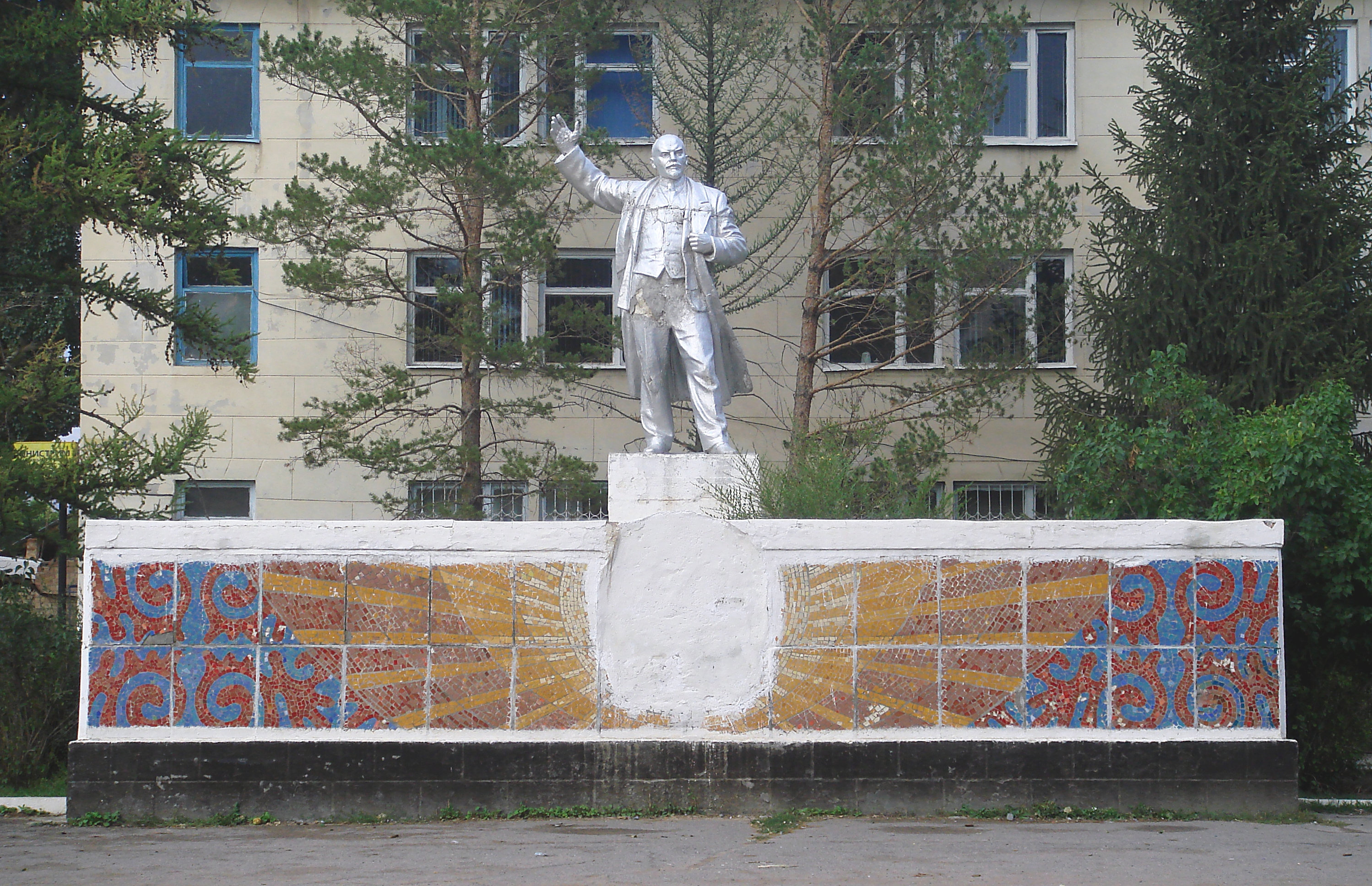 Statue of Lenin in Kochkor (Naryn Province, Kyrgyzstan).